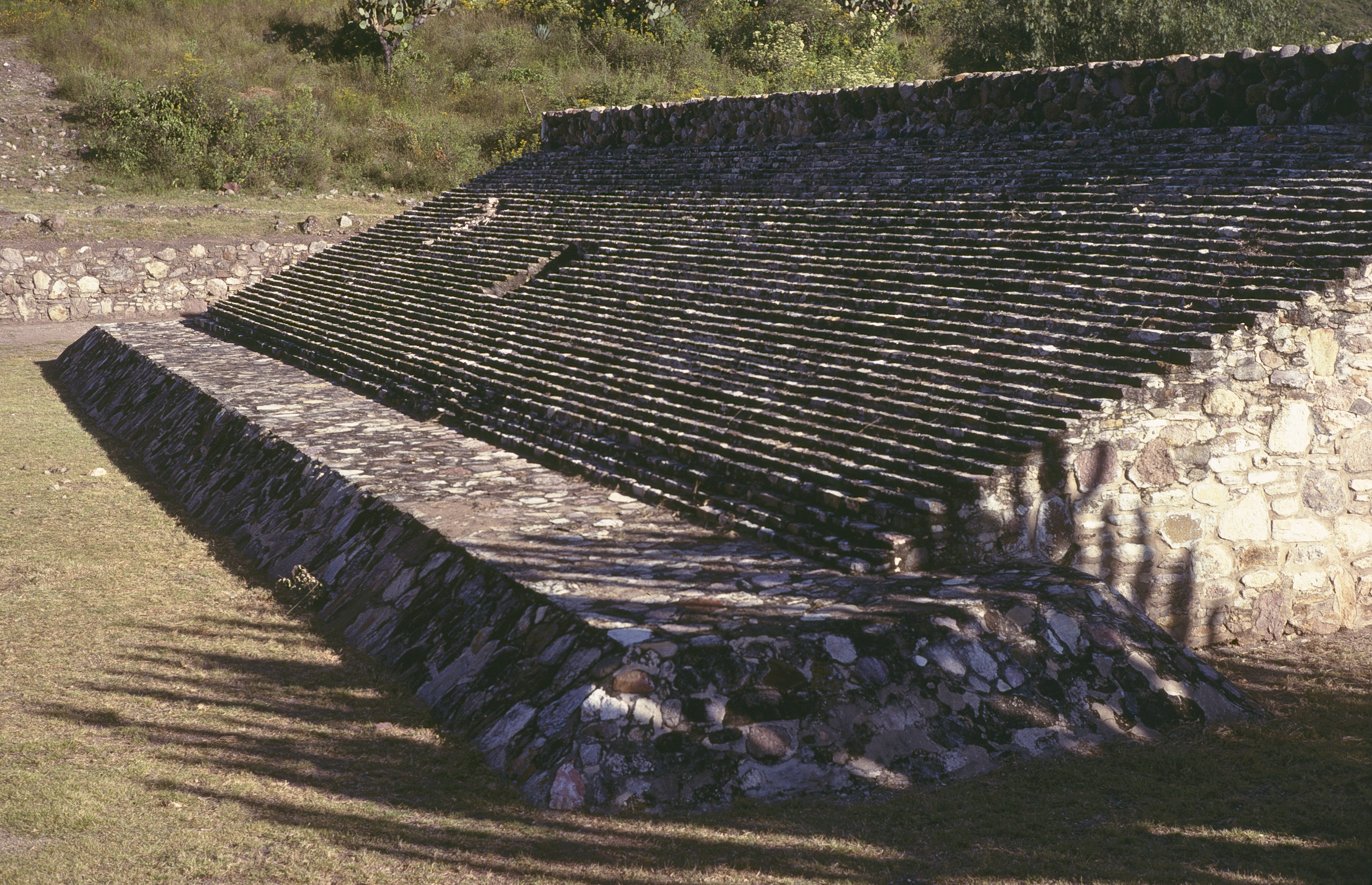 Conjunto A, ball court